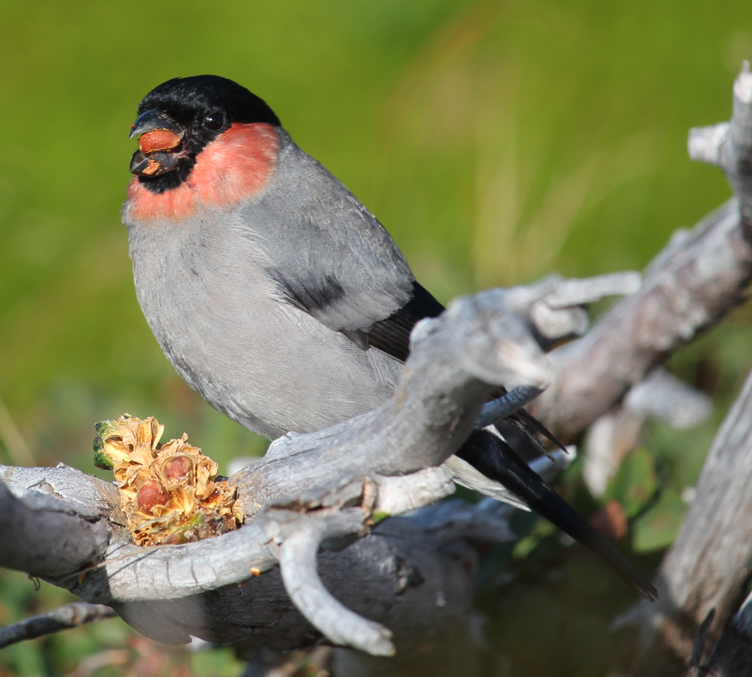 Male of Eurasian Bullfinch (Pyrrhula pyrrhula griseiventris) eating fruits of Pinus pumila, in Mount Ontake, Ōtaki, Nagano prefecture, Japan.